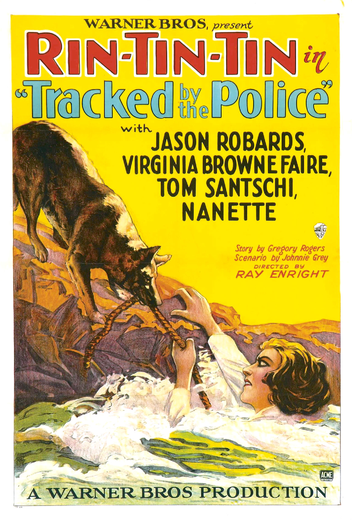 Poster for the 1927 film Tracked by the Police. The item has no copyright markings on it as can be seen in the links above. At bottom left is 13-29 and at bottom right is a logo for the Acme Litho Corp-they printed the poster.